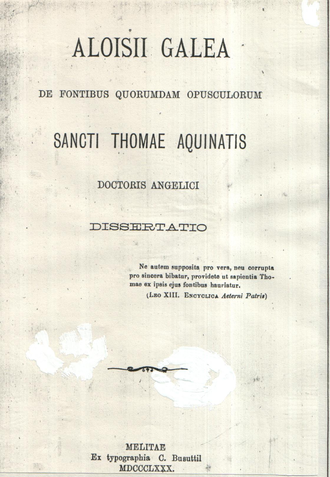 Sancti Thomæ Aquinatis (1880) by Louis Galea